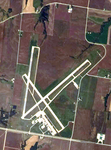 Image courtesy of the Image Science & Analysis Laboratory, NASA Johnson Space Center.